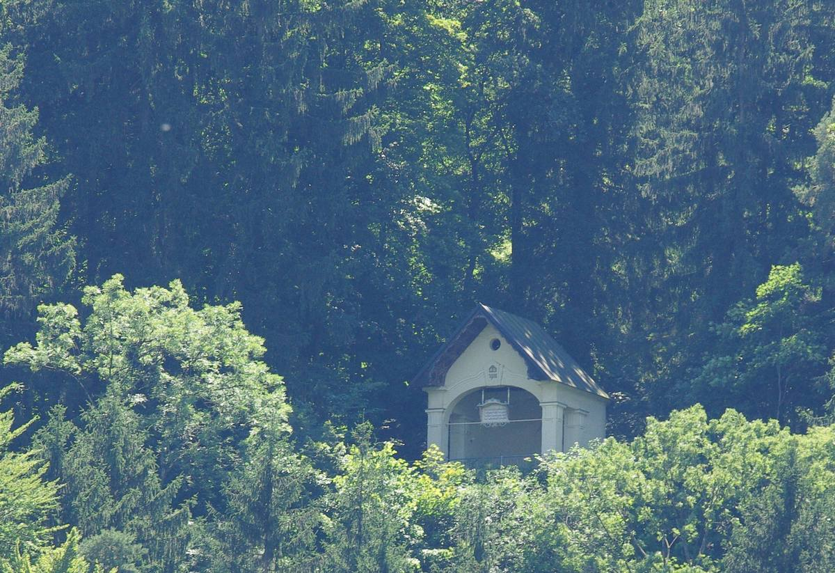 Amalienruhe in 83435 Bad ReichenhallThis is a photograph of an architectural monument.